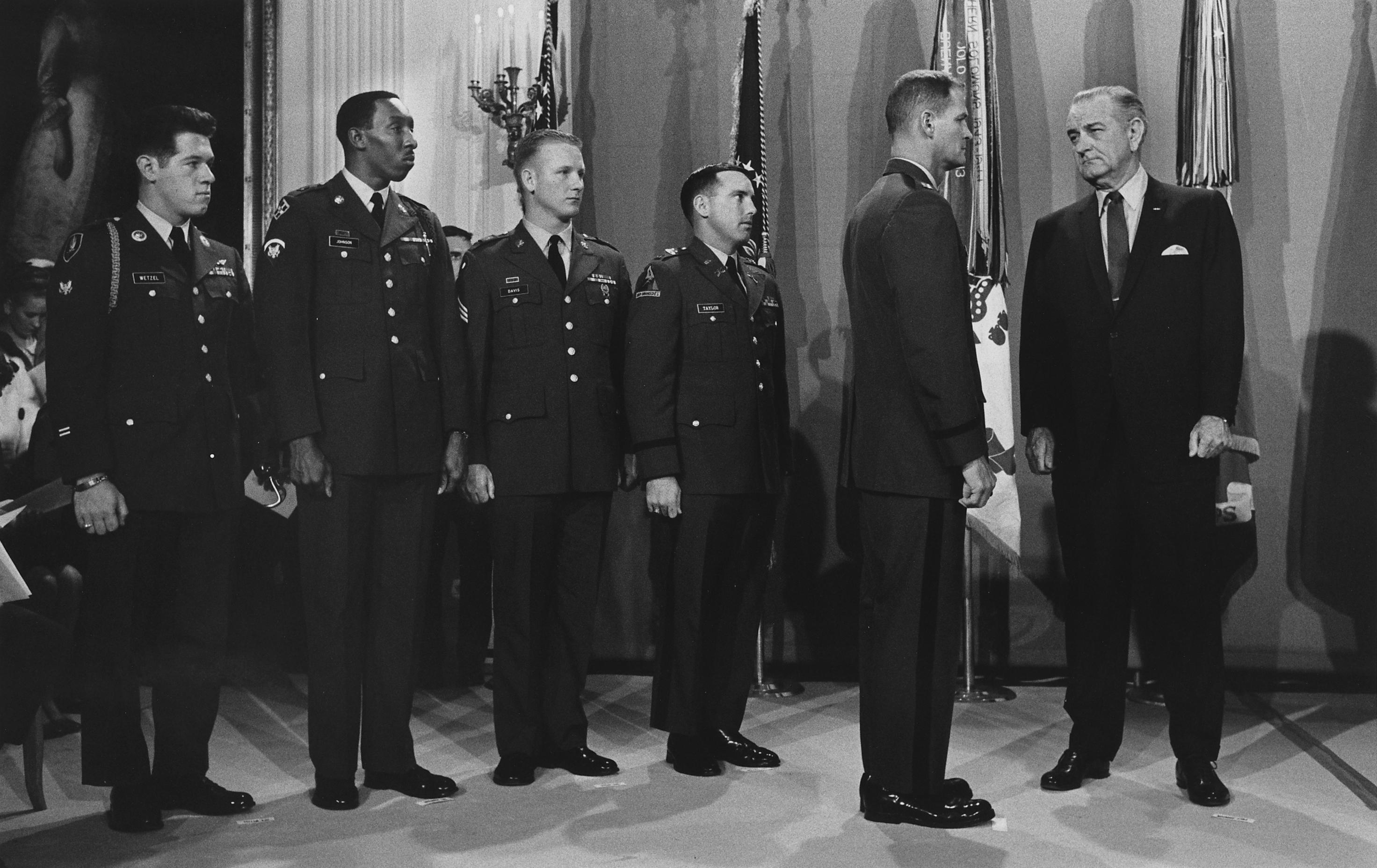 President Lyndon B. Johnson presents Medal of Honor to Captain Angelo Liteky, USA. Also present from left to right, fellow Medal of Honor recipients Specialist-4 Gary Wetzel, Specialist-5 Dwight H. Johnson, Sergeant Sammy L. Davis, Captain James A. Taylor.